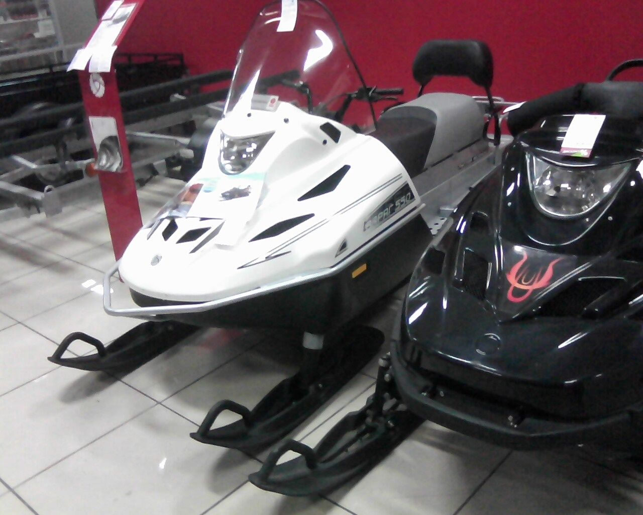 Snowmobiles in Russia